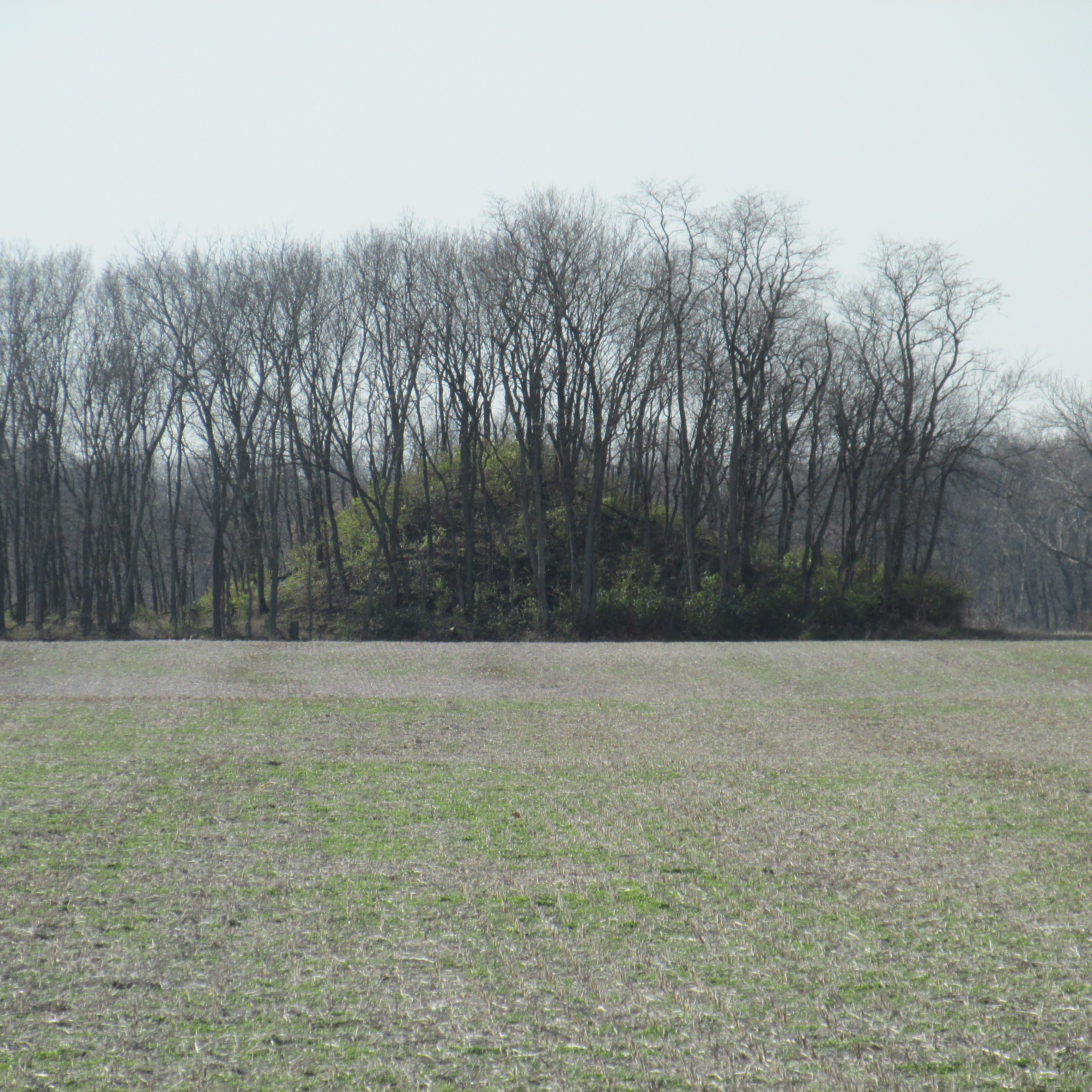 The W. C. Clemmons Mound located in Pickaway County, Ohio.